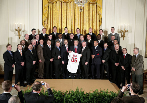 The St. Louis Cardinals of Major League Baseball (United States) are honored at the White House by President George W. Bush following the side's winning the 2006 World Series.